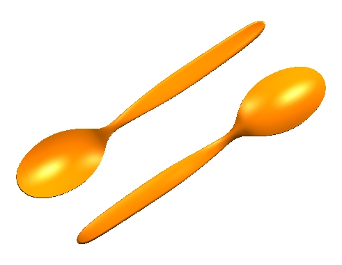 Solid/Freeform CAD model created in NX (Unigraphics)